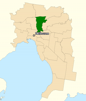 Incorporates or developed using Administrative Boundaries ©PSMA Australia Limited licensed by the Commonwealth of Australia under Creative Commons Attribution 4.0 International licence (CC BY 4.0). Derived from State and Territory Boundaries from the Australian Bureau of Statistics under Creative Commons Attribution 2.5 Australia license (CC BY 2.5 AU)